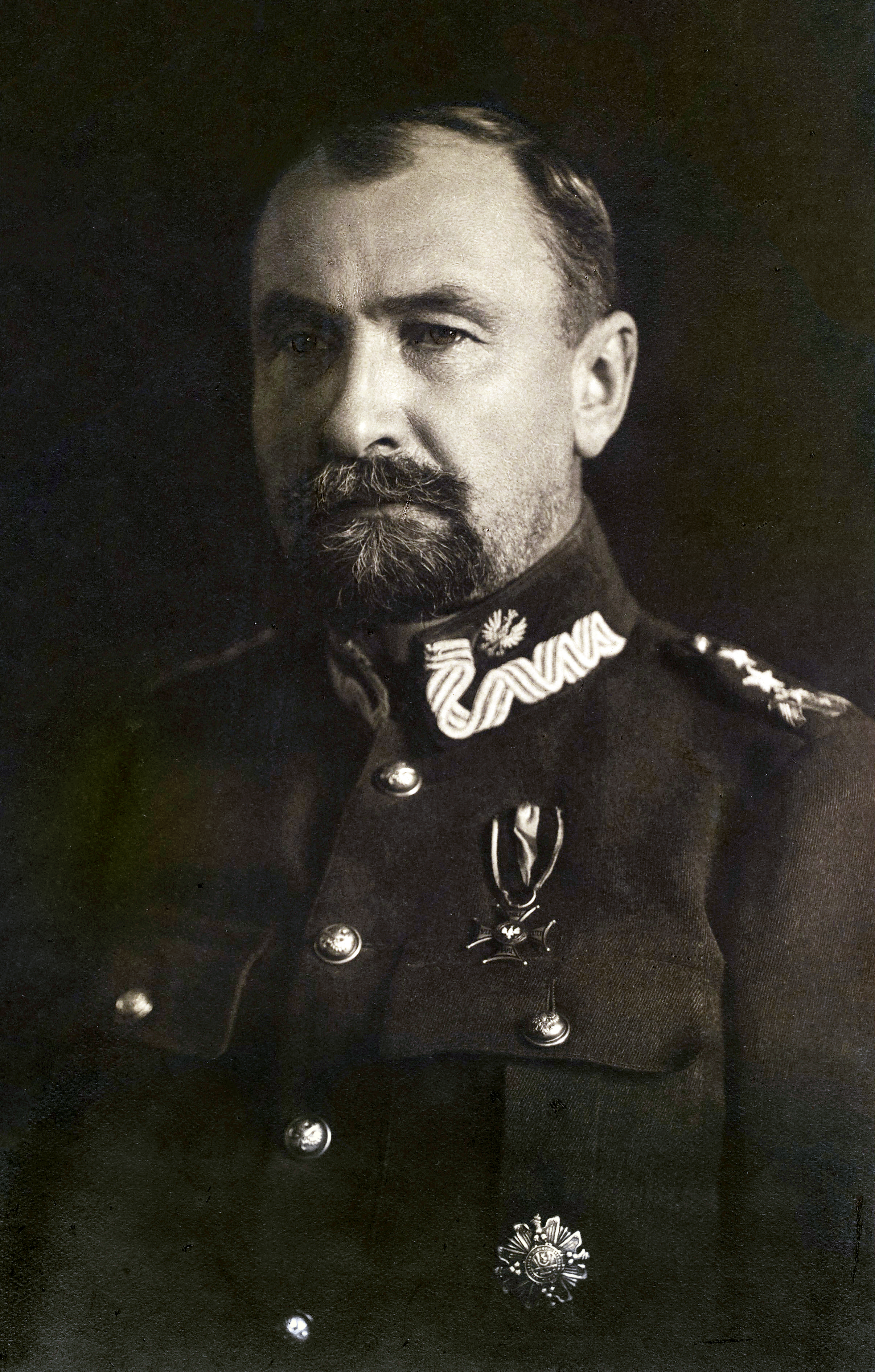 Polish General Tadeusz Rozwadowski in 1920.